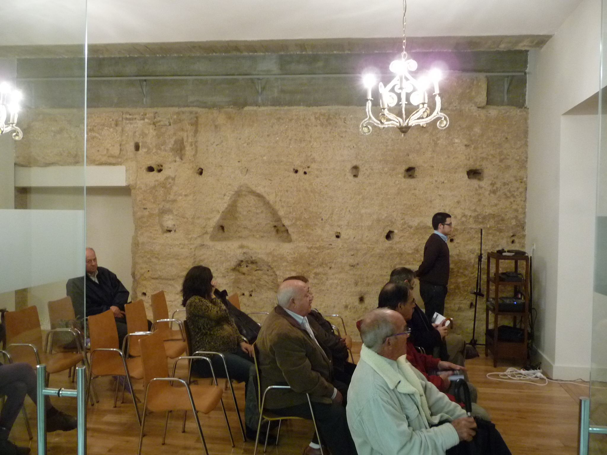 Palacio de Luna in Jerez de la Frontera (Andalusia, Spain)